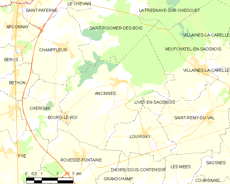 Map of French municipality